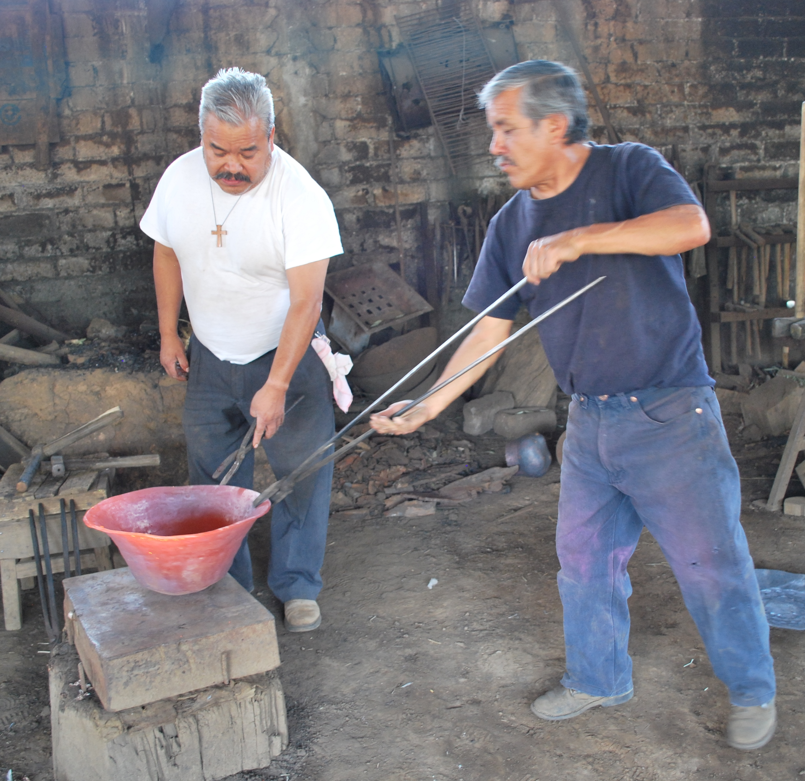 Place hot copper piece in process at the Abdón Punzo workshop in Santa Clara del Cobre, Michoacán